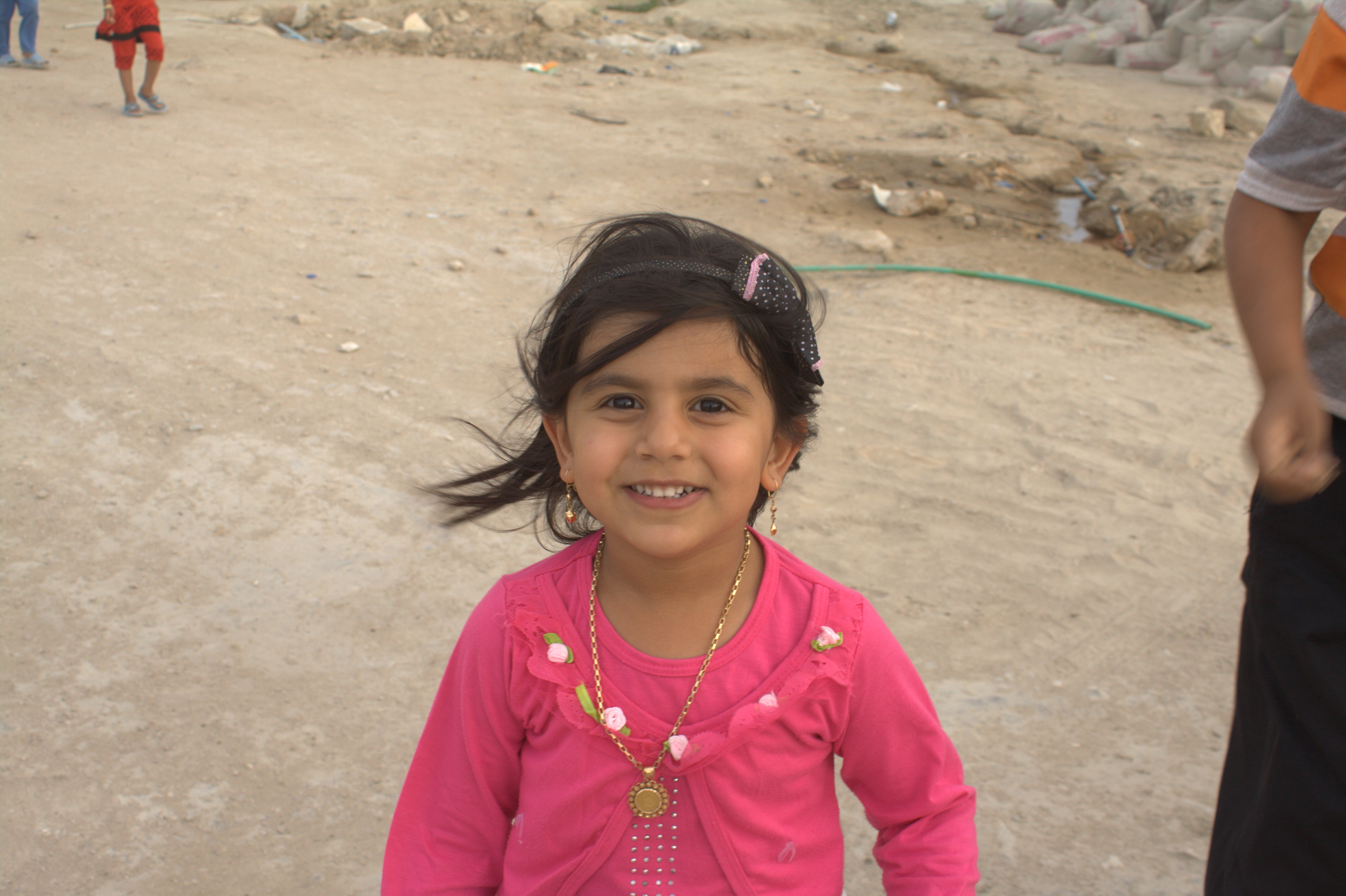 On April 9, 2013, a 6.3-magnitude earthquake struck the Iranian province of Bushehr, near the city of Khvormuj and the towns of Kaki and Shonbeh. At least 37 people were killed, mostly from the town of Shonbeh and villages of Shonbeh-Tasuj district, and an estimated 850 people were injured.